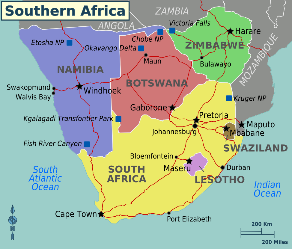 Map of Southern Africa regions for use on Wikivoyage, English version This map is obsolete!